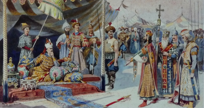 "Demtre the Devoted"